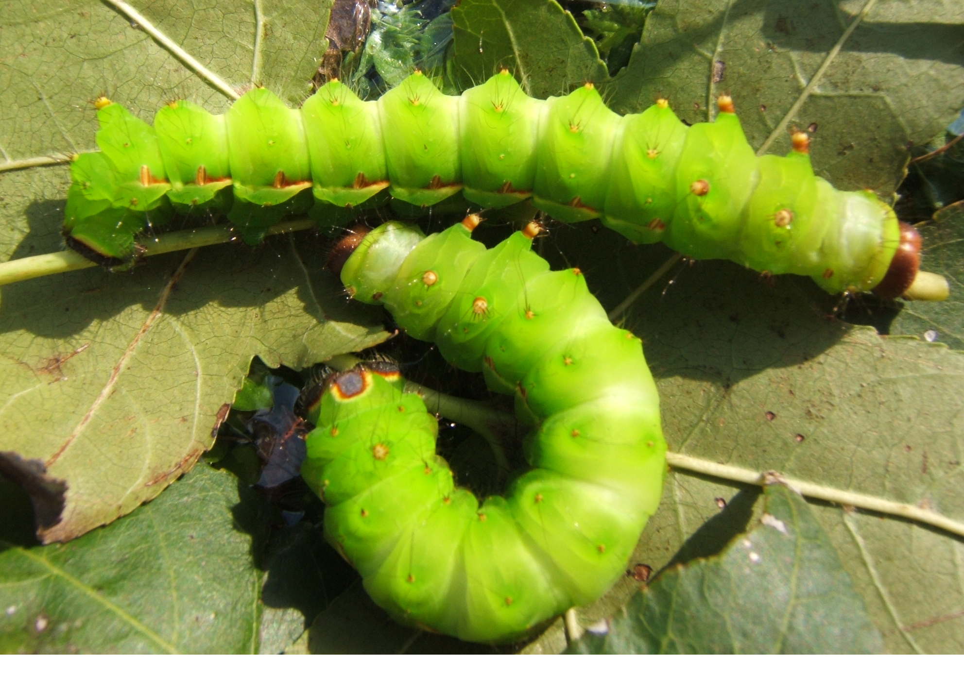 Actias artemis 5th instar larvae reared on American Sweetgum. Taken and raised by Shawn Hanrahan.